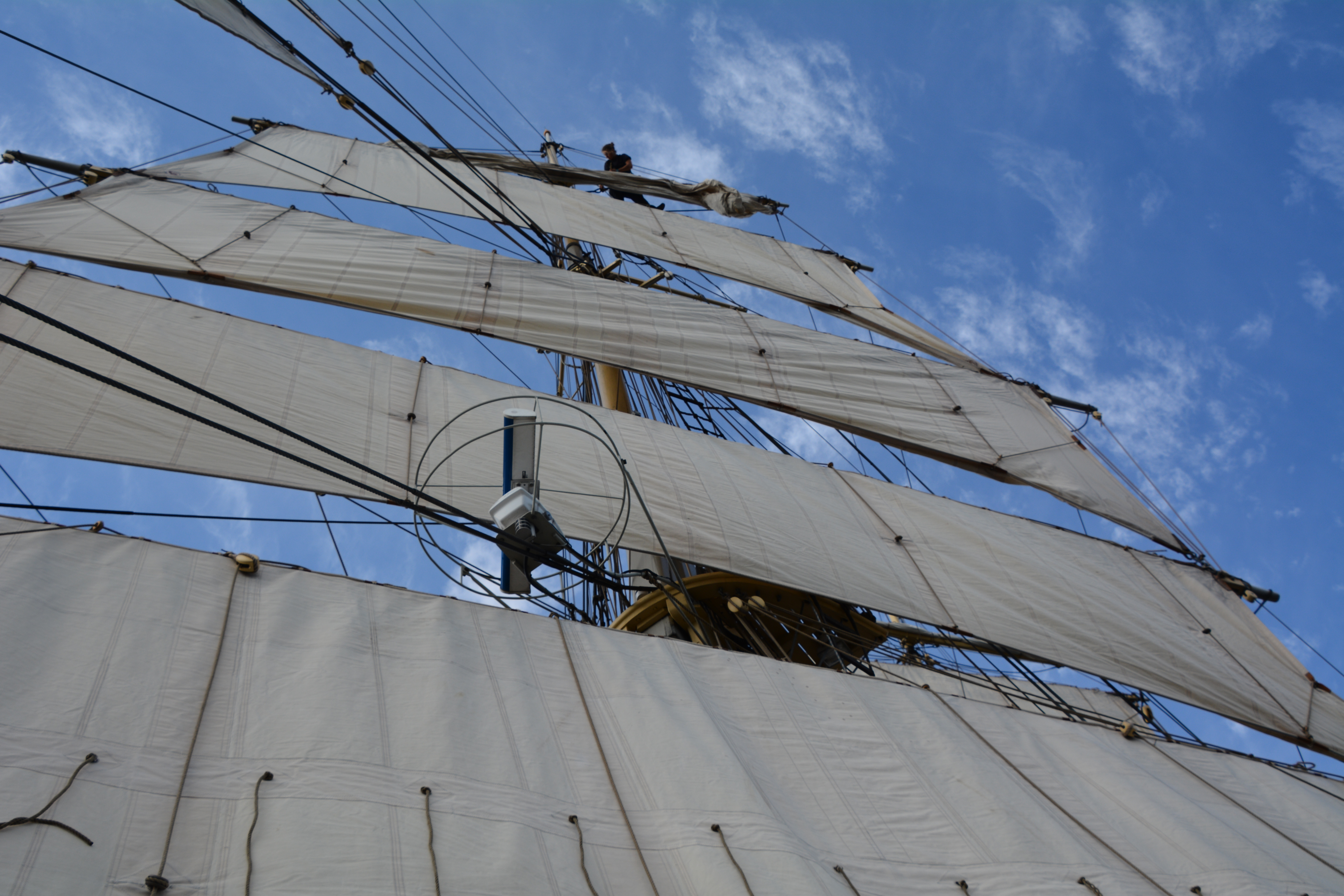 Högst upp i riggen